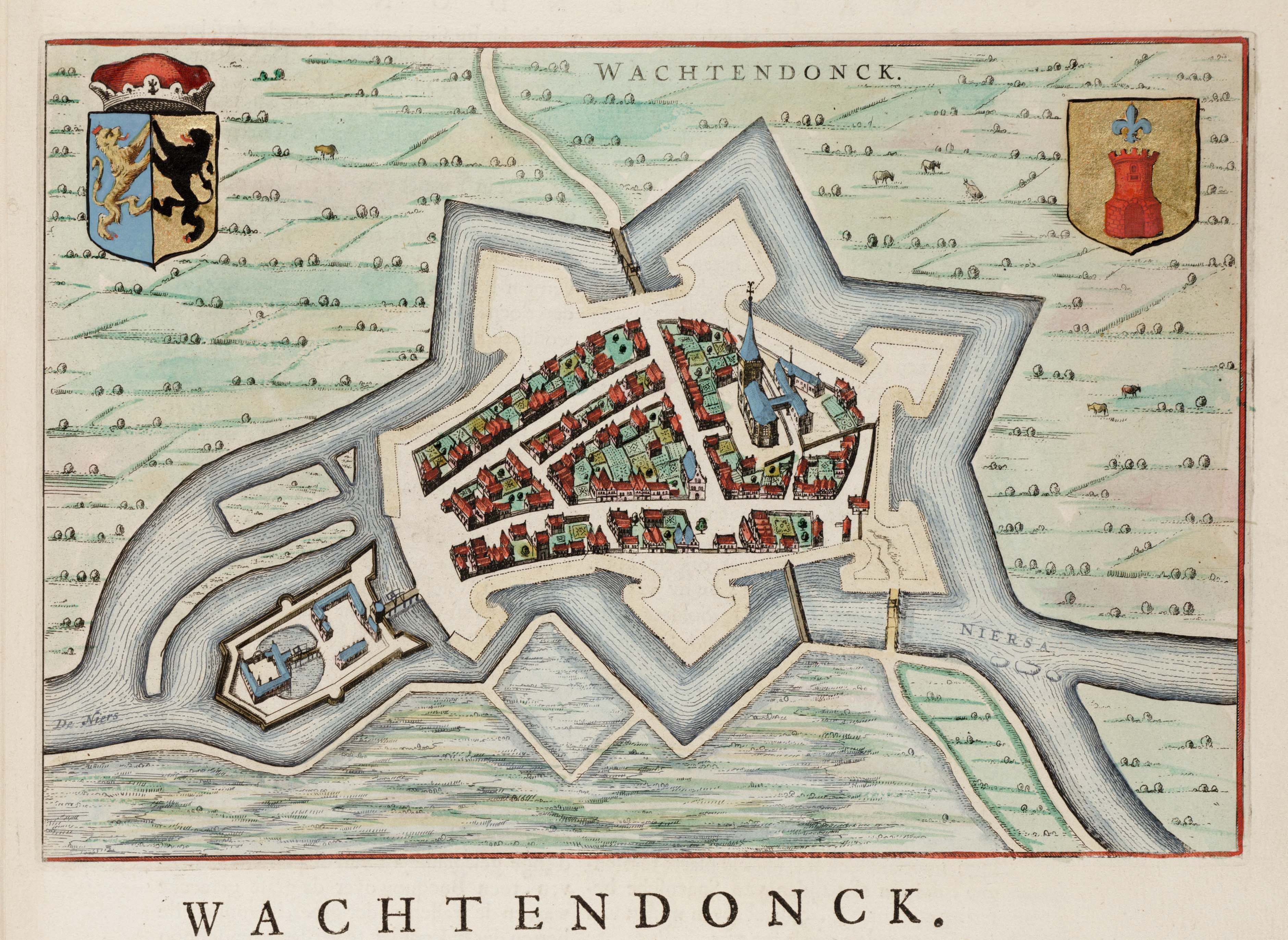 The town & castle of Wachtendonck (Wachtendonk)